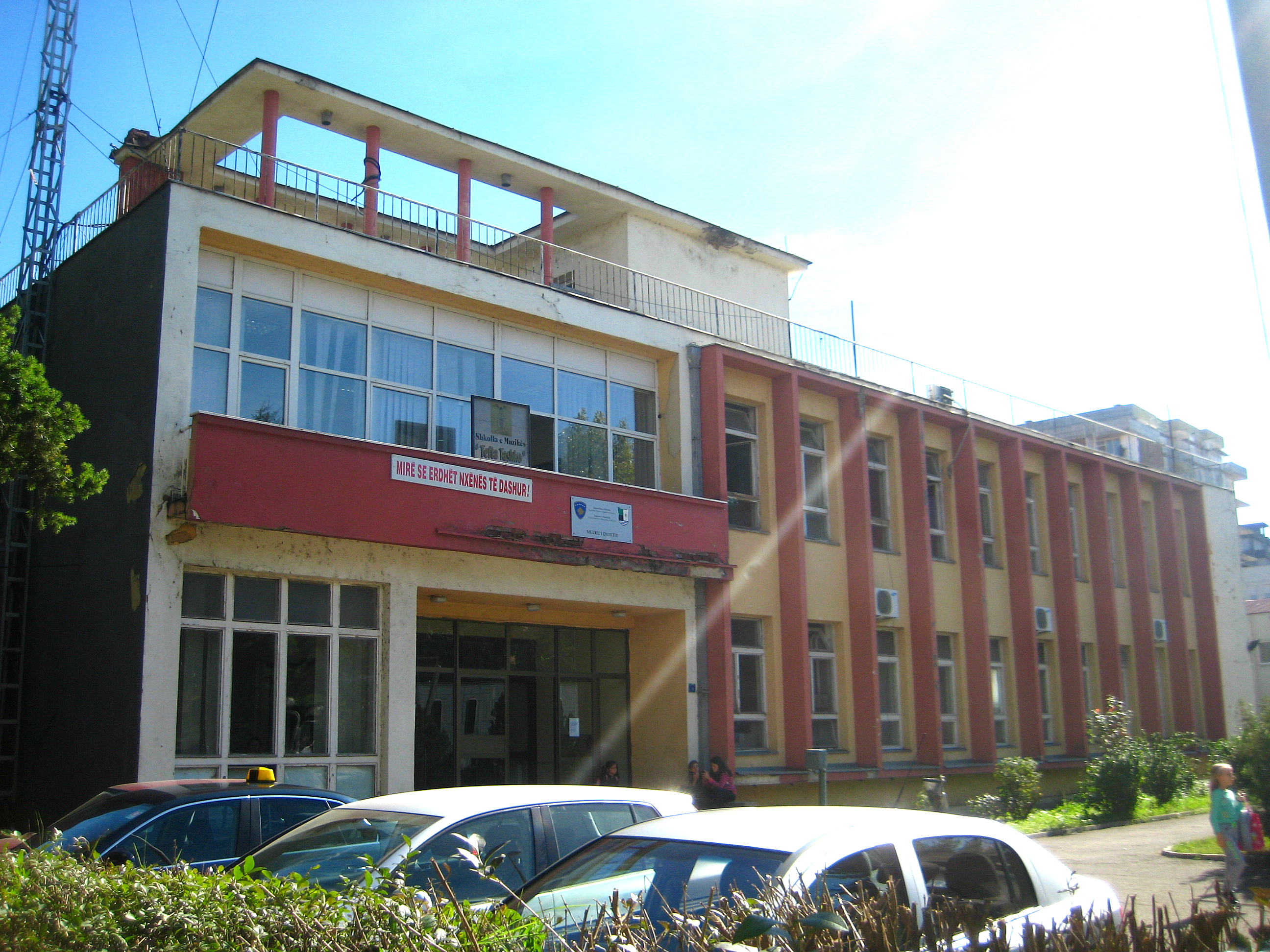 The City Museum of Mitrovica, 2014